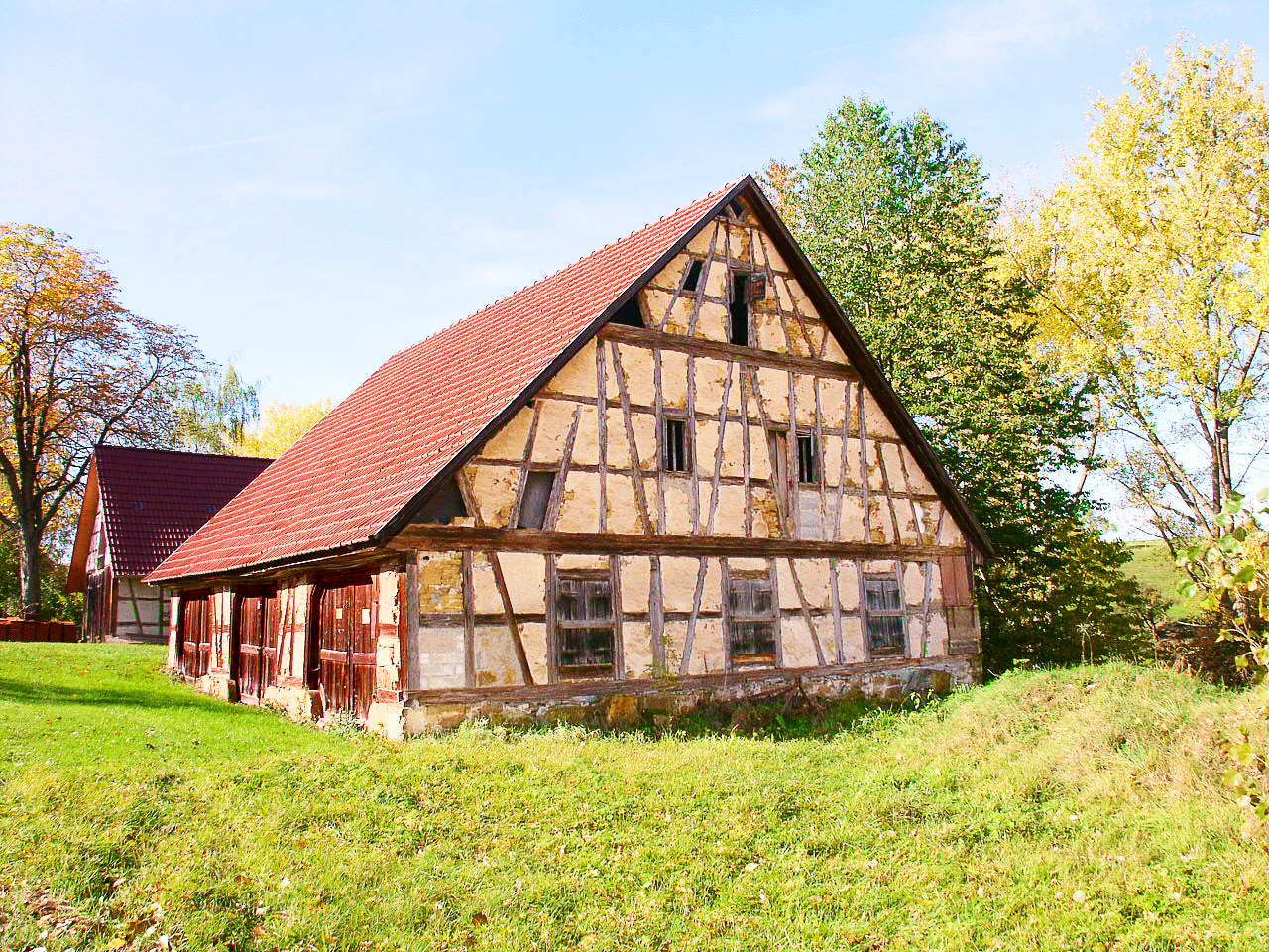 A classic Swabian style barn from Ostdorf, Germany. Ostdorf, Balingen, Wuerttemberg, Germany.